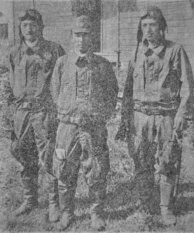 Captain Iwamoto and First Lieutenant Sonoda and the Ando first lieutenant who stand in front of barracks